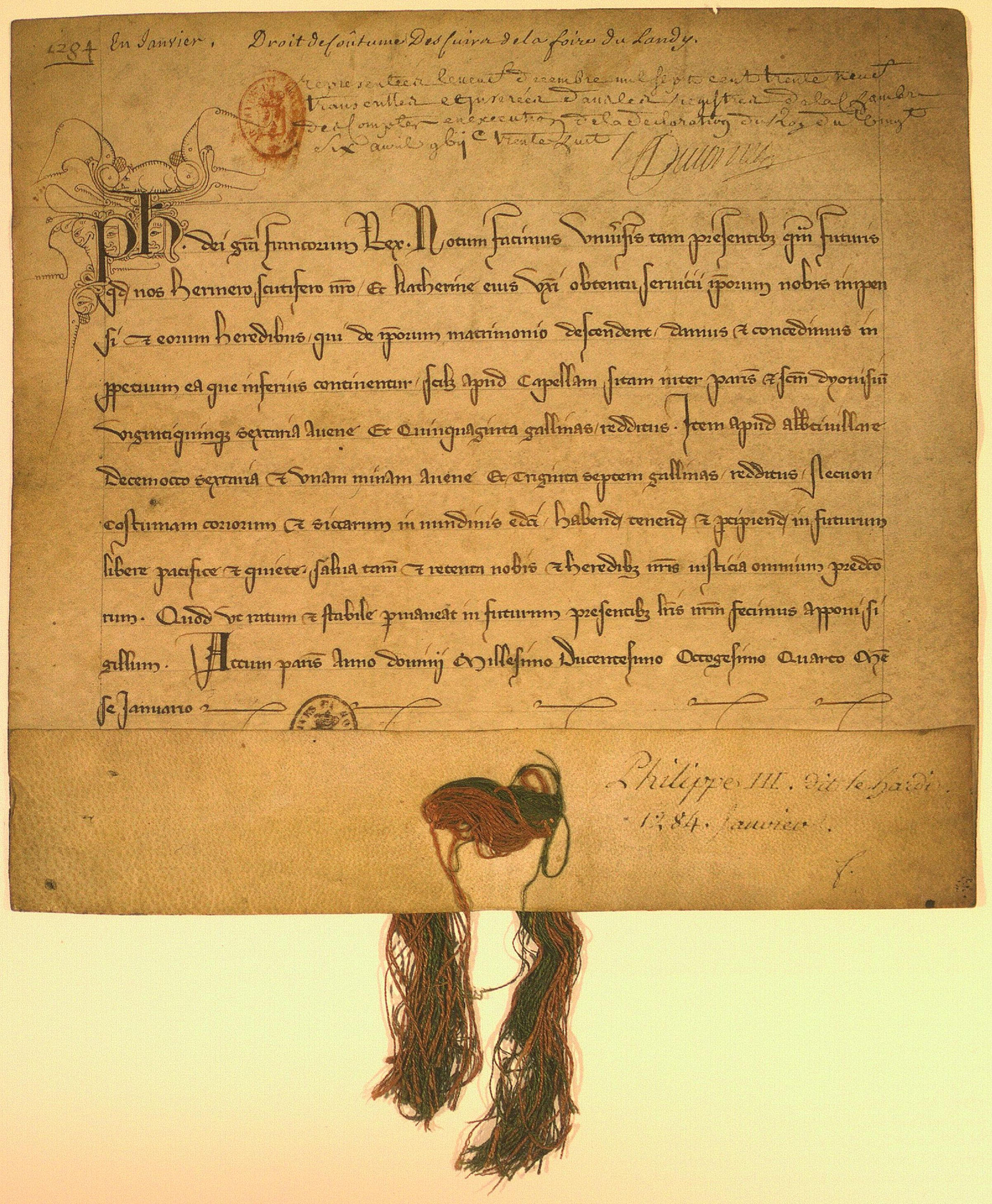 A charter of King Philip III of France